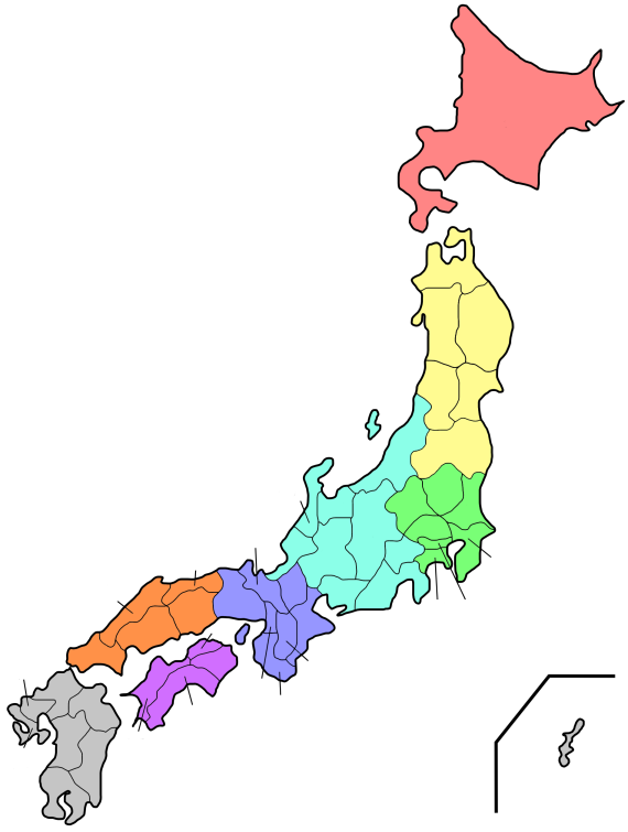 Blank map of Japanese Prefectures